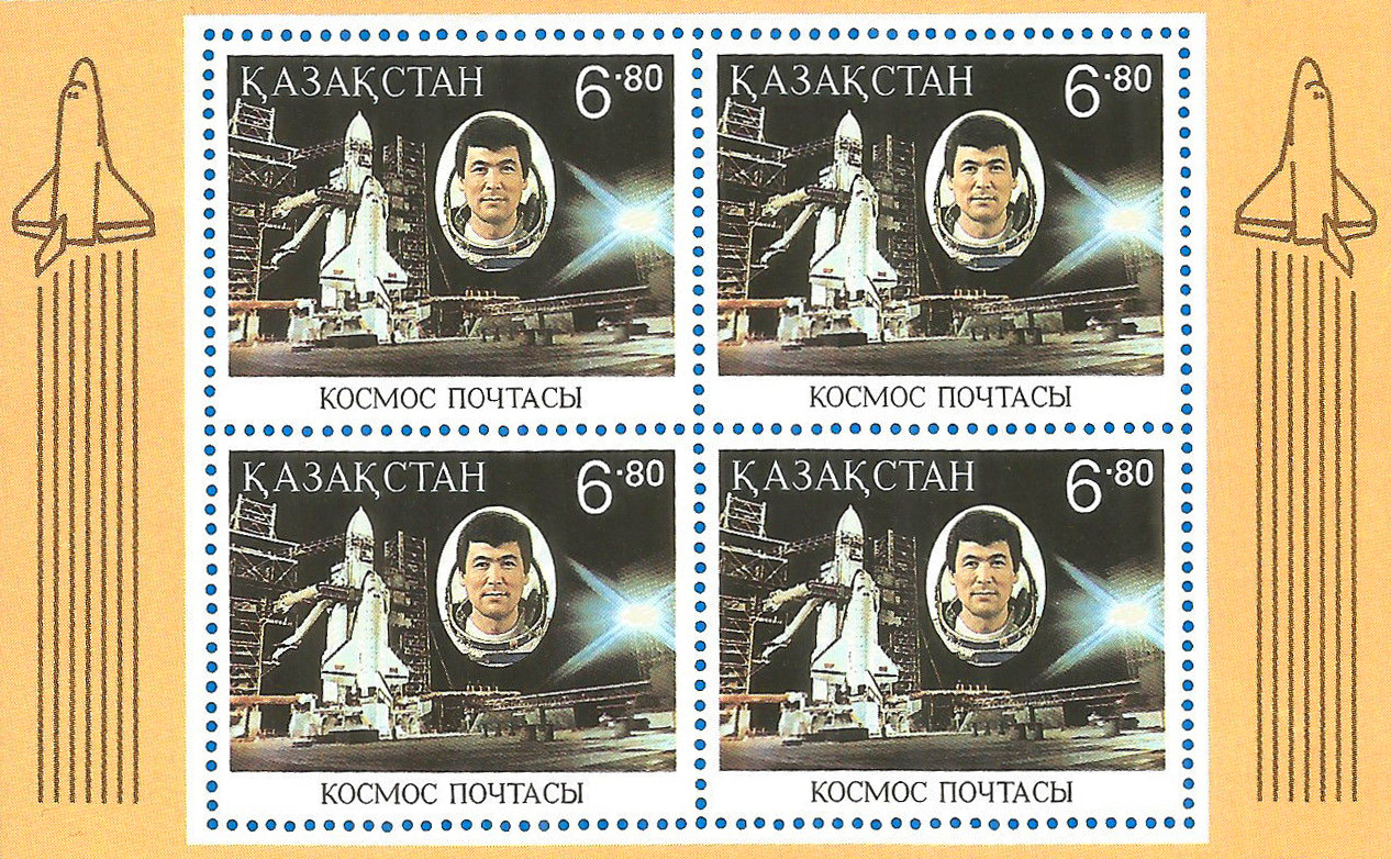 Stamp of Kazakhstan